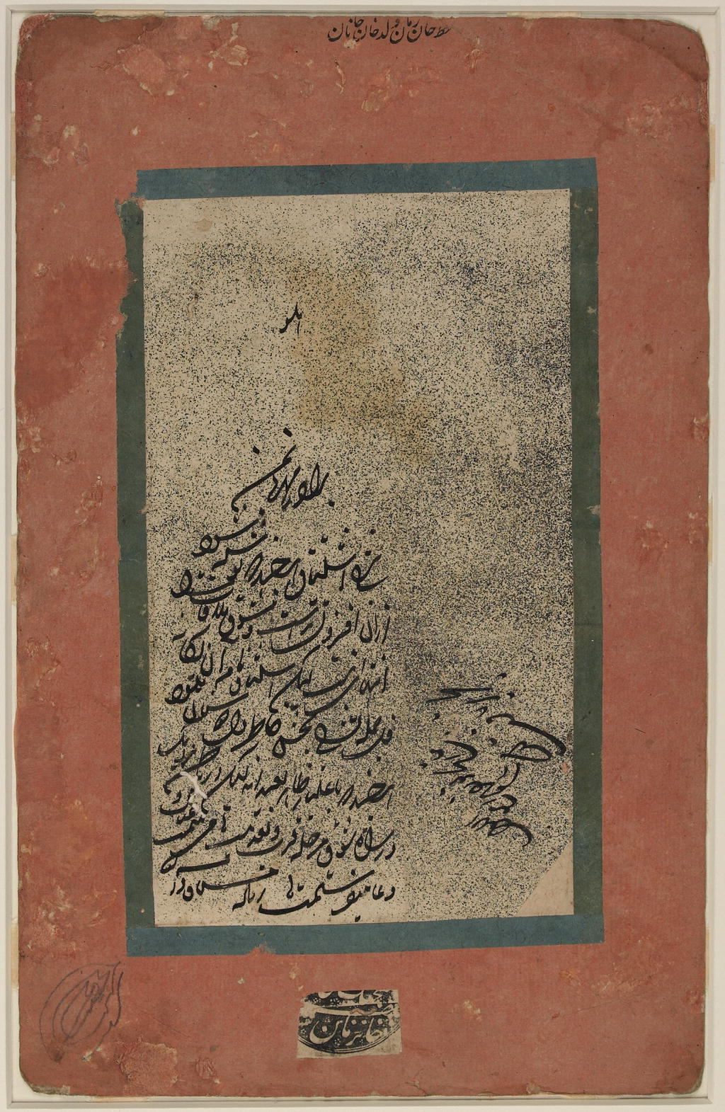 This calligraphic fragment belongs to a series of twenty-two literary compositions or letters (insha') written by the calligraphers named Mir Kalan, Khan Zaman (son of Khan Khanan), Qa'im Khan, Lutfallah Khan, and Mahabat Khan (1-84-154.49, 1-84-154.53-54, 1-87-154.146a-f, and 1-88-154.30). Judging from the script (Indian nasta'liq), a seal impression bearing the date 1113/1701-2 (1-87-154.146a R), and a letter mentioning the city of Janpur in India, it appears that these writings were executed in India during the 18th-century. Furthermore, if one were to identify the calligrapher Mir Kalan as the renowned painter active during the mid-18th century in Lucknow, then this identification would add further support to identifying this calligraphic series in the Library of Congress' collection as a corpus of materials produced by several writers active in 18th-century India. Script: Indian nasta'liq.